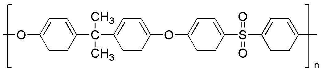 A repeating unit of polysulfone.